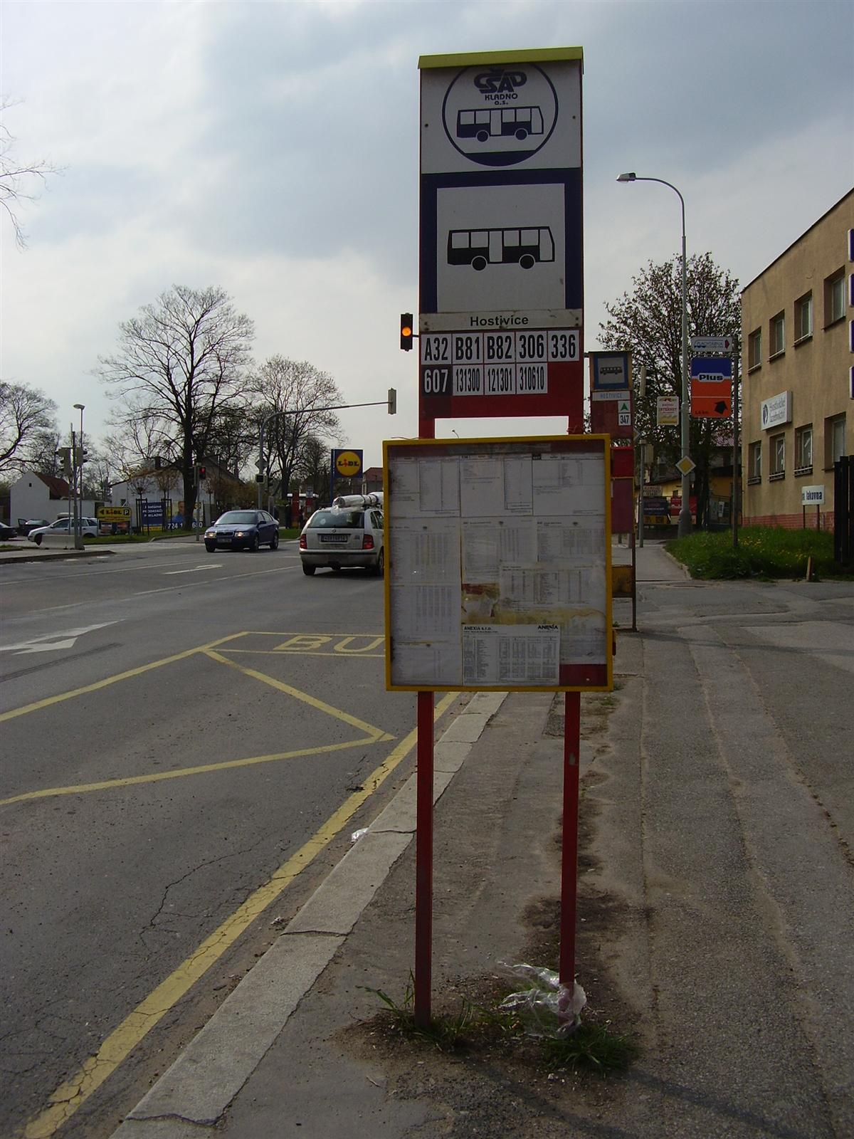 Bus stop in Hostivice near Prague